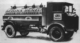 Tatra T23 tanker.